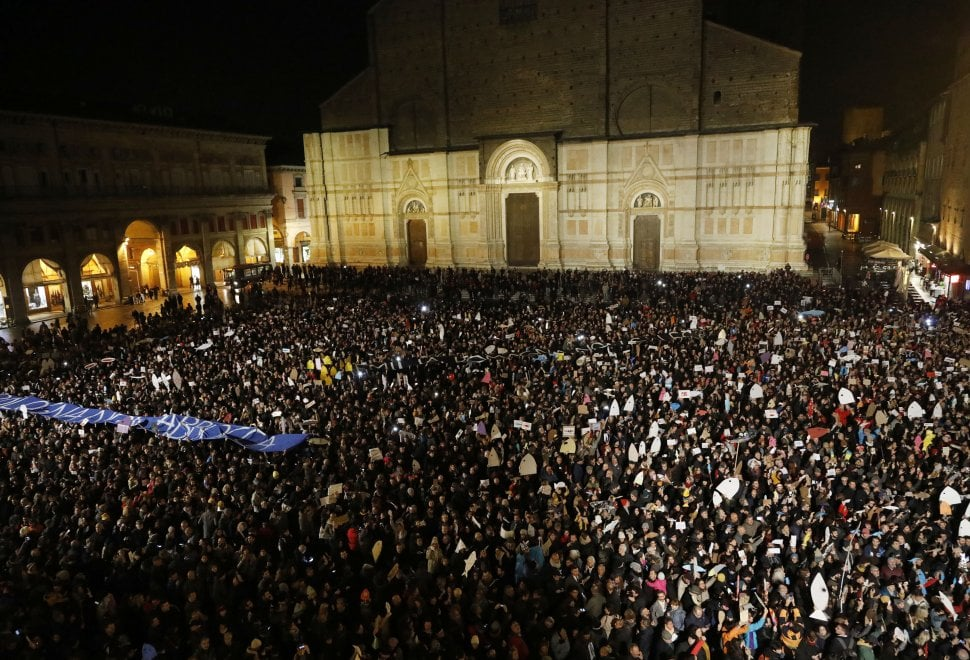 12 mila sardine a Bologna